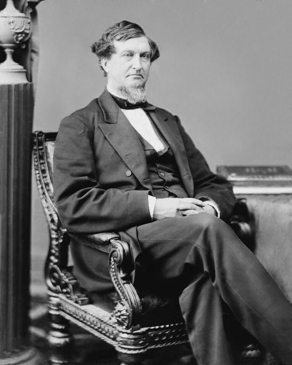 Zachariah Chandler